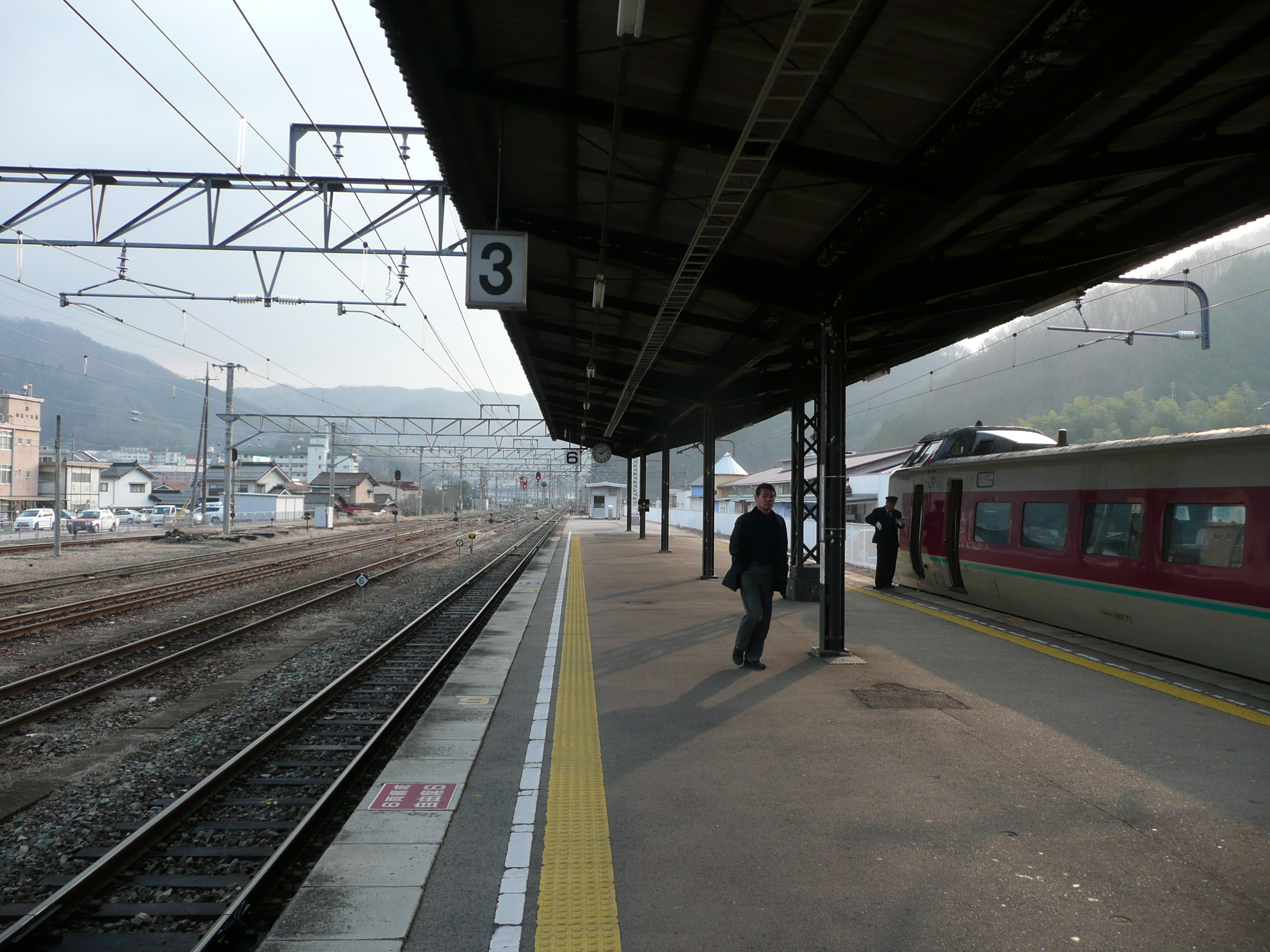 3番線ホーム「備中高梁、岡山方面」